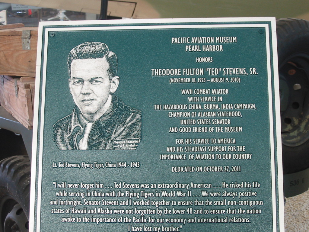 Photographed at the Pacific Aviation Museum on Ford Island in the middle of Pearl Harbor, Hawaii.